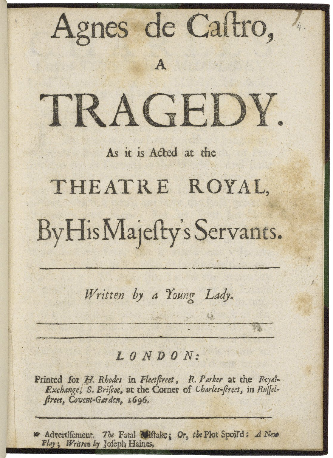 The title page of Catharine Trotter's Agnes de Castro, a dramatization of Aphra Behn's short story with the same title. This edition was printed in 1696.